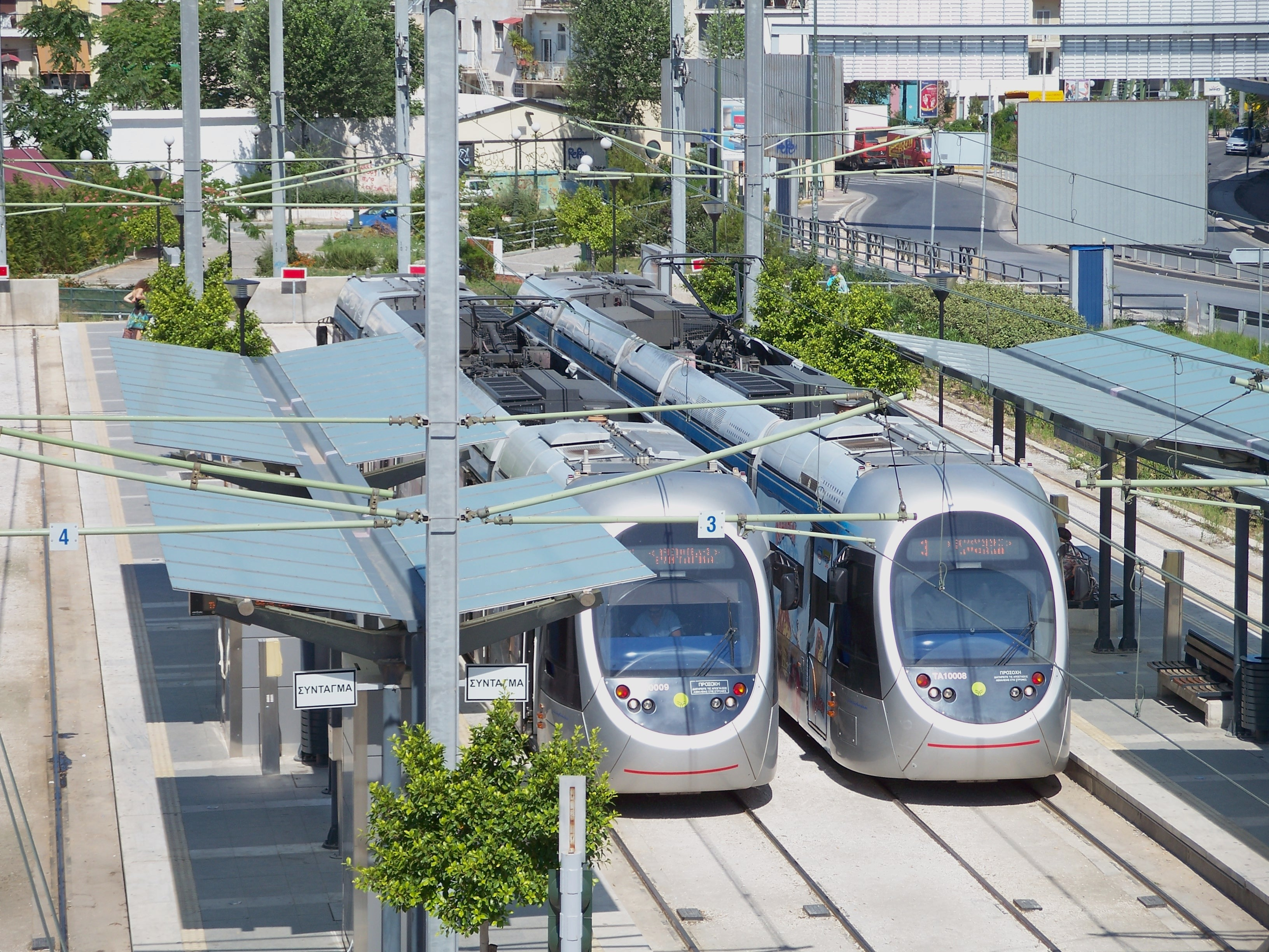 Piece and Friendship Stadium stop (Στάδιο Ειρήνης και Φιλίας) in Faliro, Piraeus, which serves the stadium by the same name and is the terminal of lines 1 and 3 of the Athens tram system.